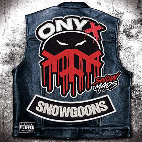 Cover des Albums „Snowmads“